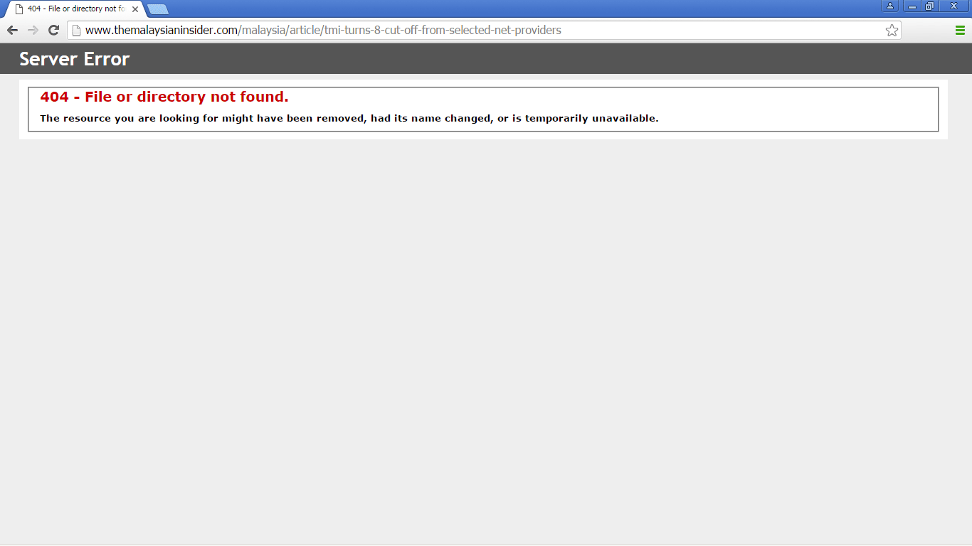 This is the warning page shows to Internet users trying to access blocked pages in Malaysia. Due to the technical error of the Malaysian police, the page has been showing only an error message since May 2016.